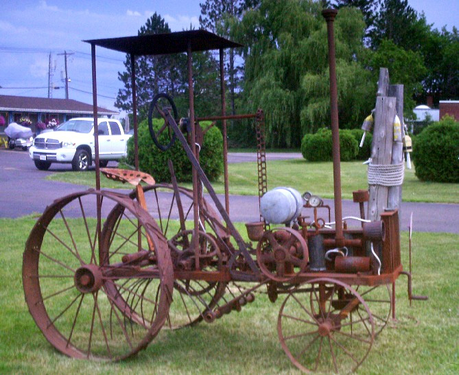 An antique tractor – A very early, hand-built gasoline powered tractor.